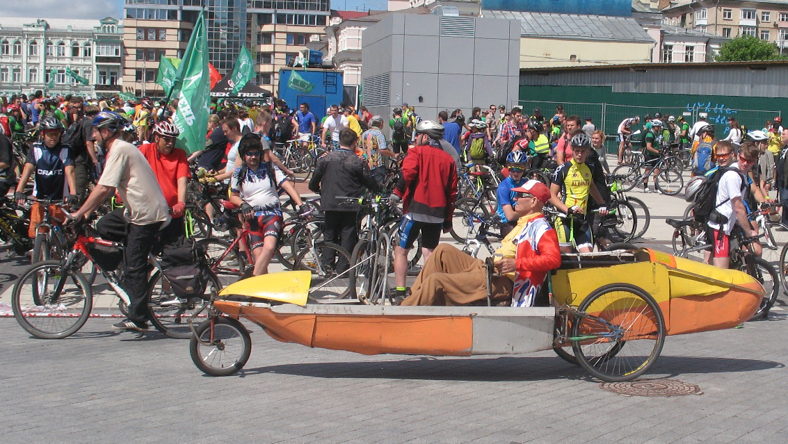 Ukrainian velomobile